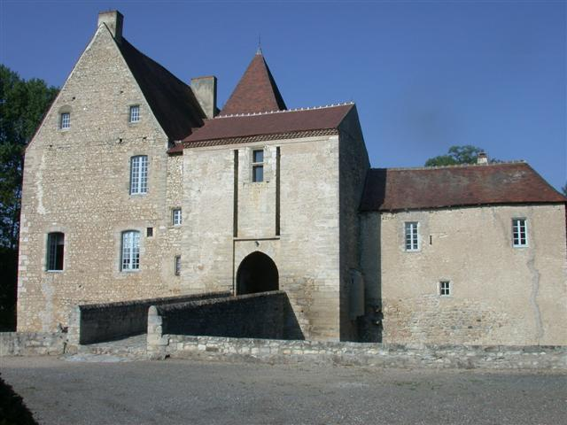 Photo of Chateau de la Mothe at Vicq (Allier)